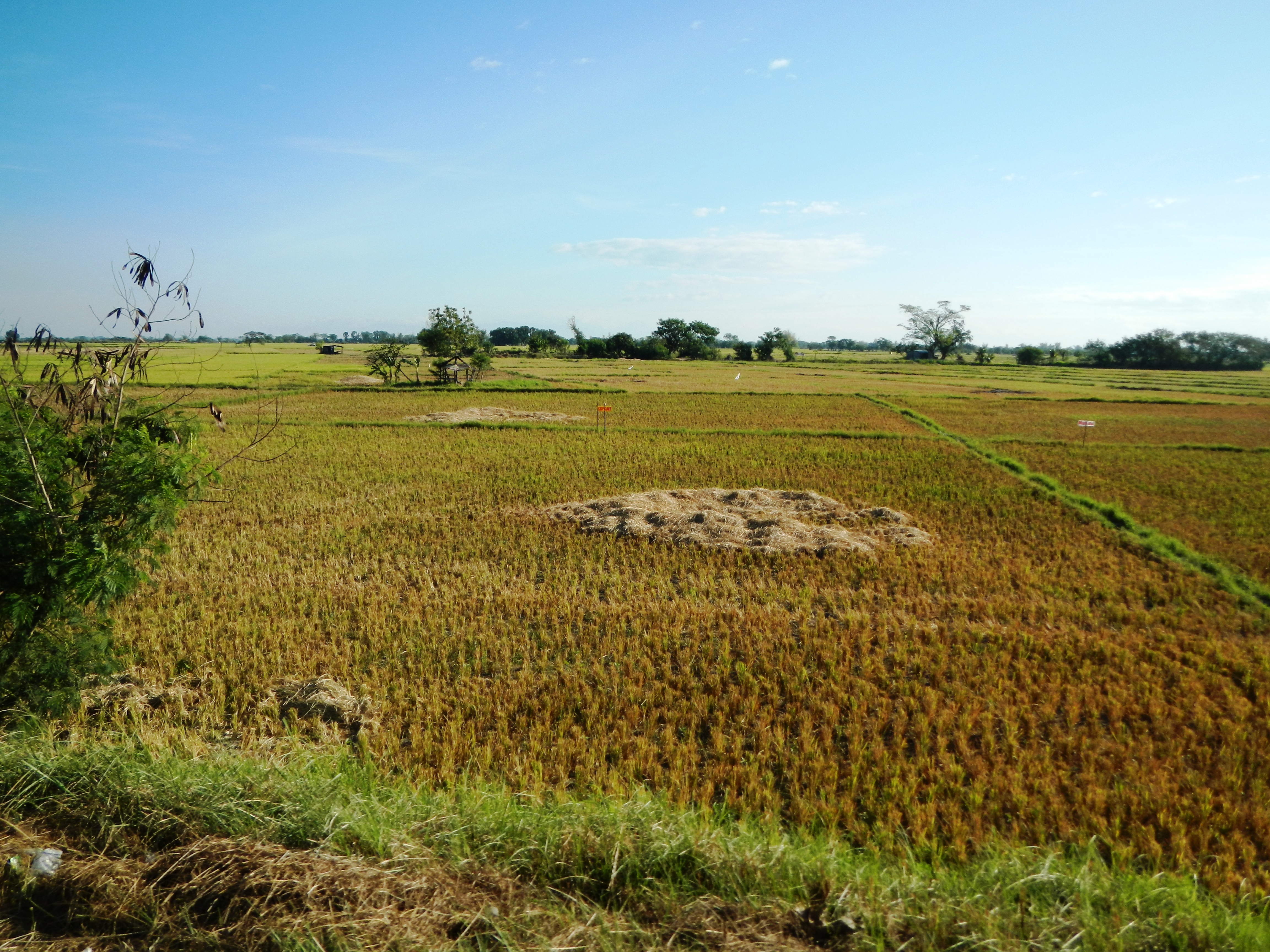 Pan-Philippine Highway Santa Rosa JunctionTarlac Road, in Tarlac City, Tarlac Province (Villa Antonia. Ang Dating Daan, San Manuel, San Jose E.R. Cabrera Elementary School, Tarlac City, Tarlac province, Water District, Our Lady of Lourdes Parish Church, Welcome Arch Barangay Matatalaib).